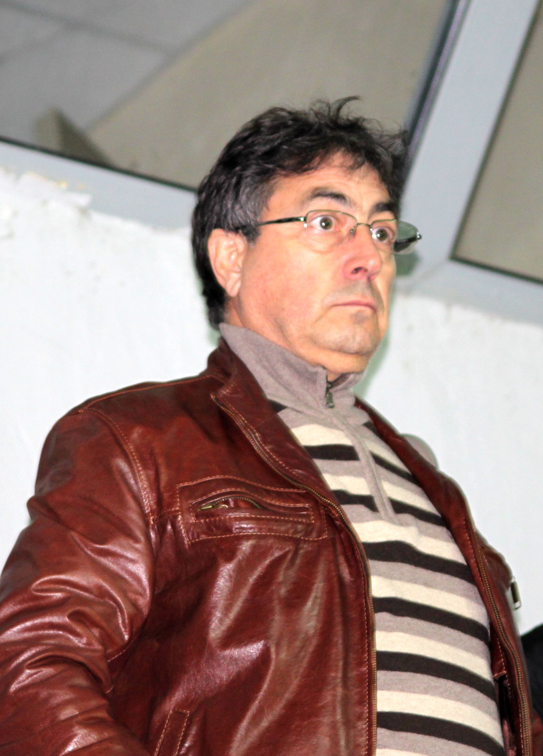 Stefan Ormanjiev - former bulgarian soccer referee